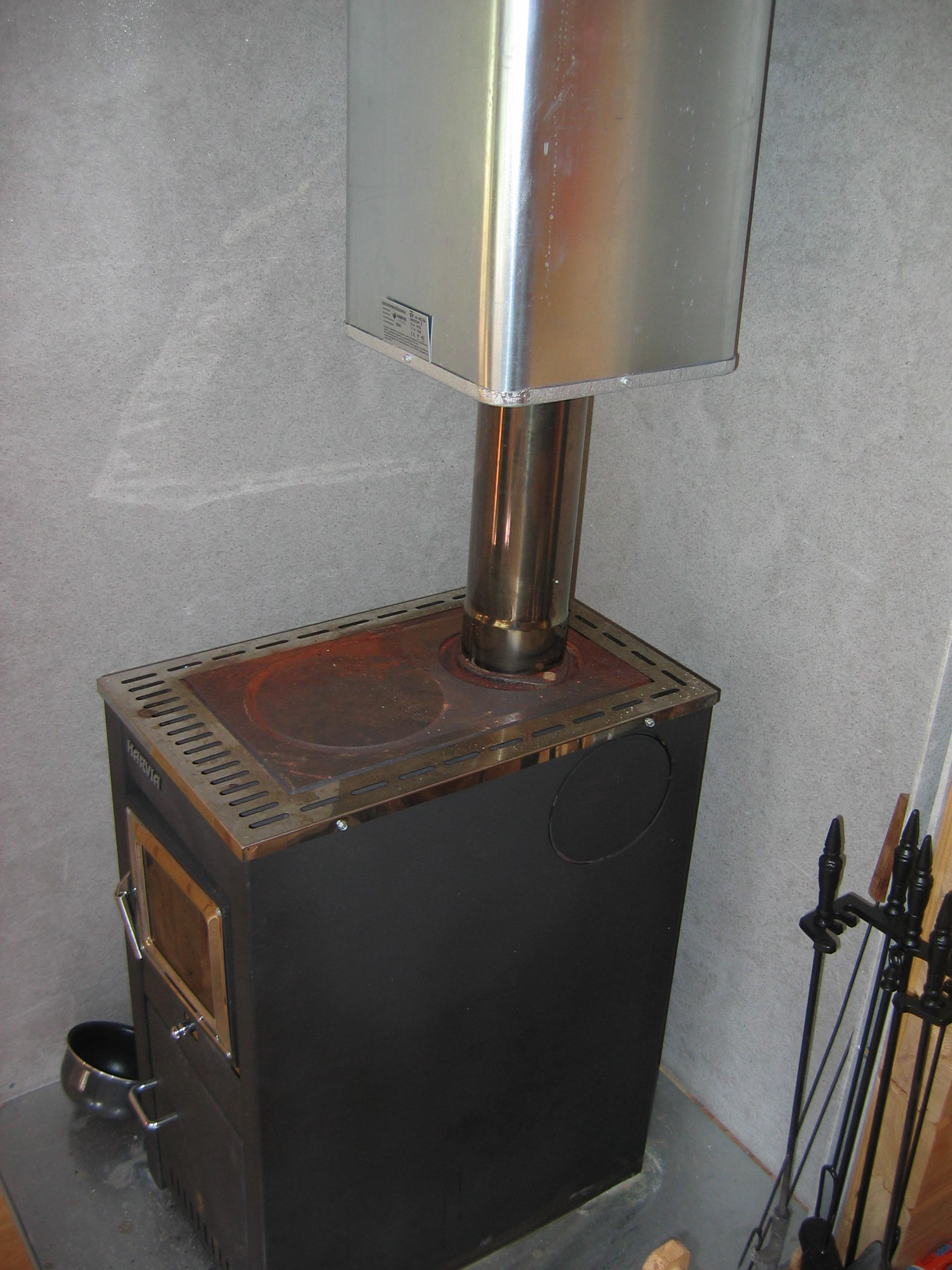 A Finnish iron stove used to in summer cottages etc. Burns wood.